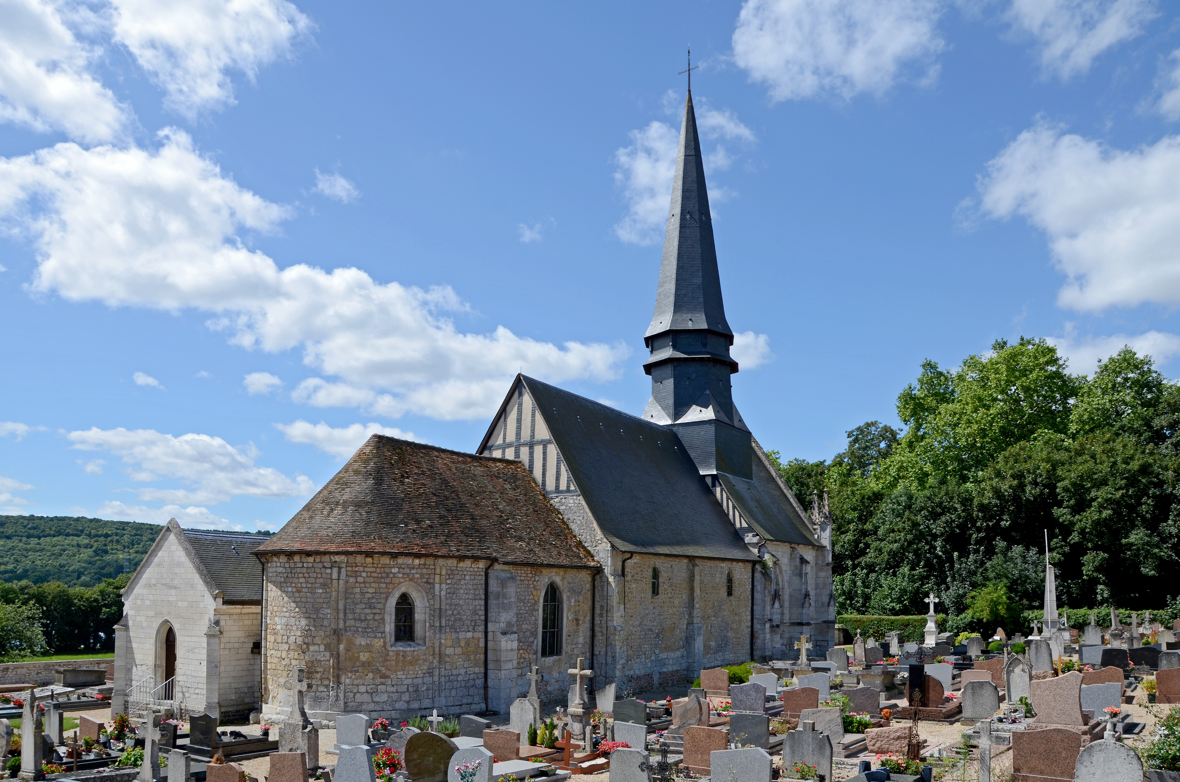 Church Saint-Sauveur in Sahurs, Seine Maritime, France